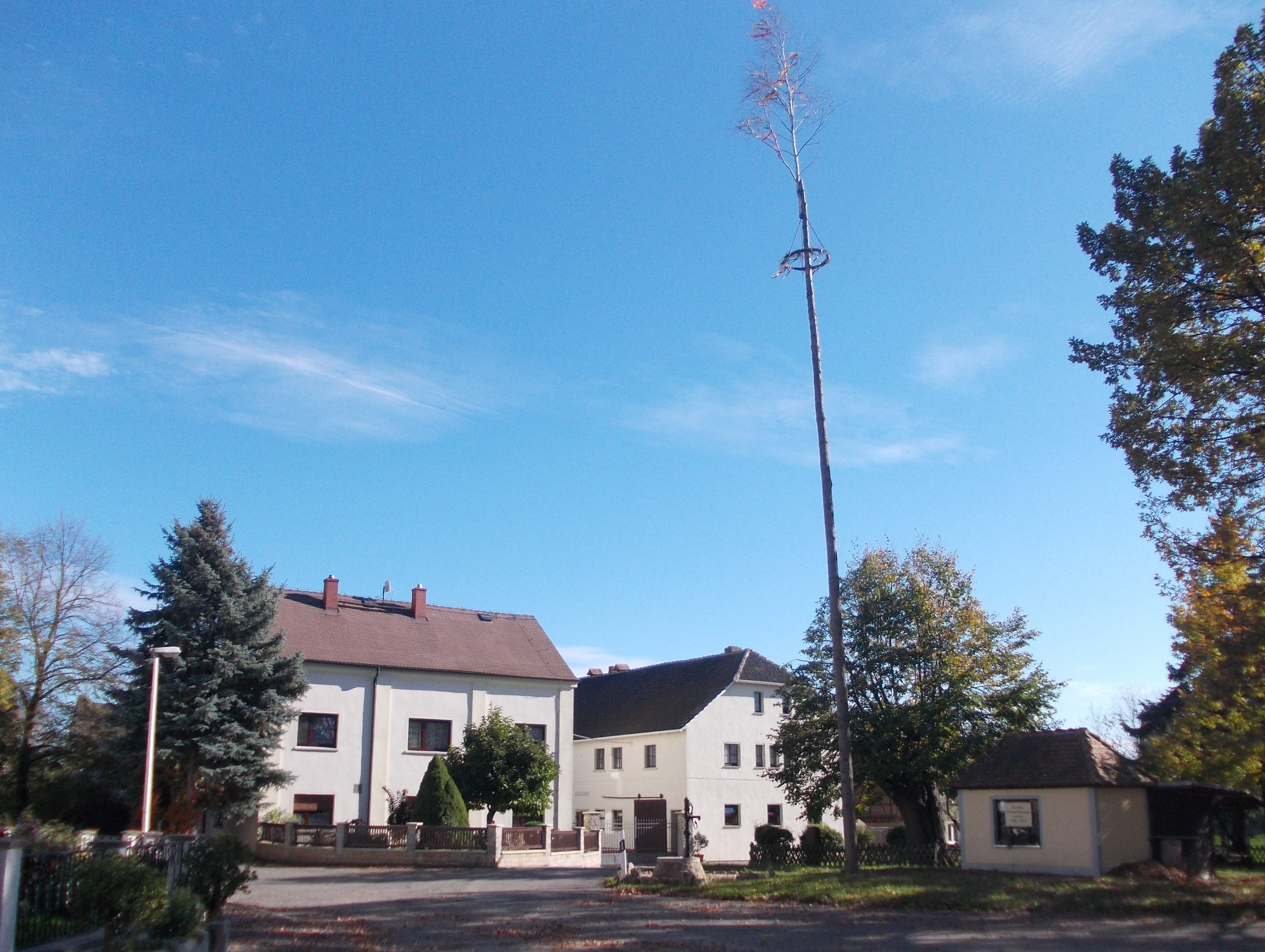 In Lessen (Gera, Thuringia)